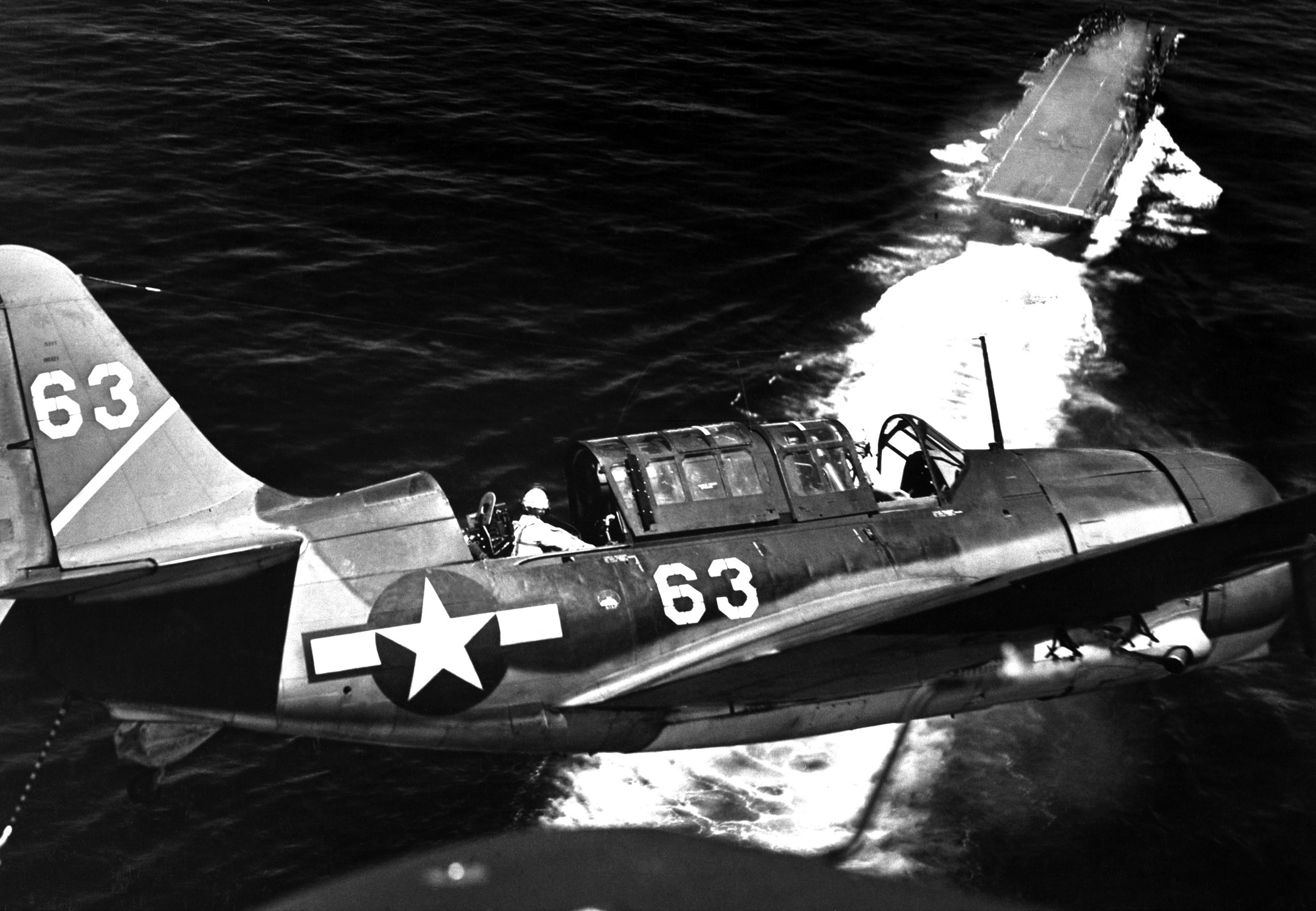 Two U.S. Navy Curtiss SB2C-1C Helldiver dive bombers of bombing squadron VB-1 in the landing circle of the aircraft carrier USS Yorktown (CV-10) in July 1944.